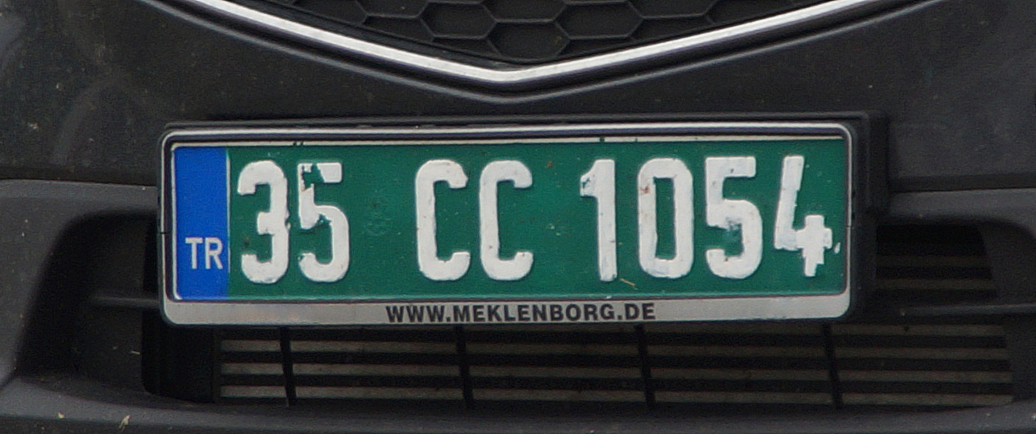 Consular License plate of Turkey (35 - İzmir)